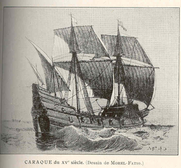 Subject: Sailing ships, Carracks Tag: Vessels